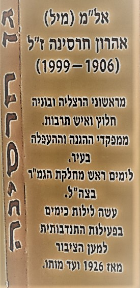 אהרן חרסינה 5